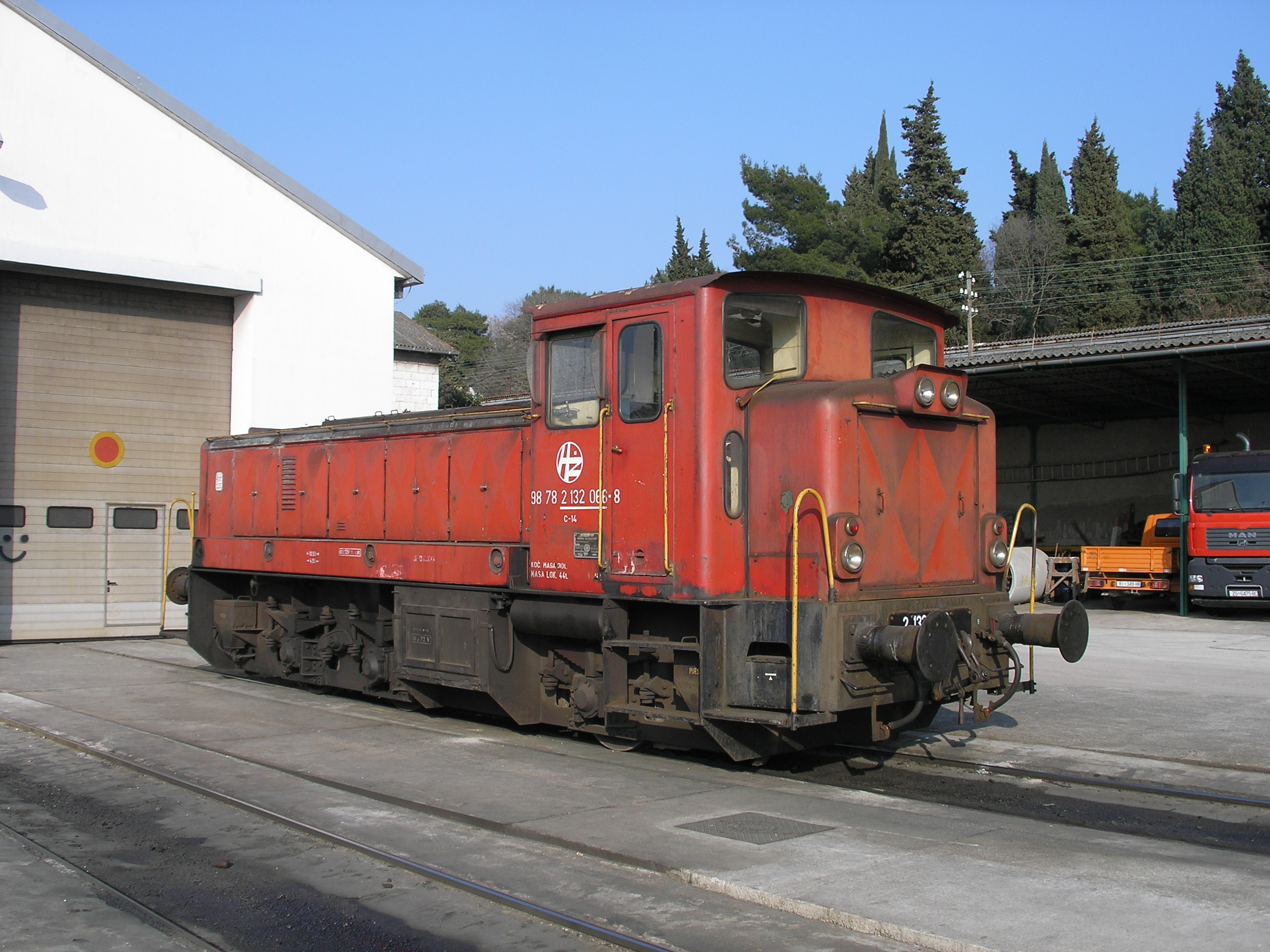 2132 series locomotive 066 in Pula, Croatia